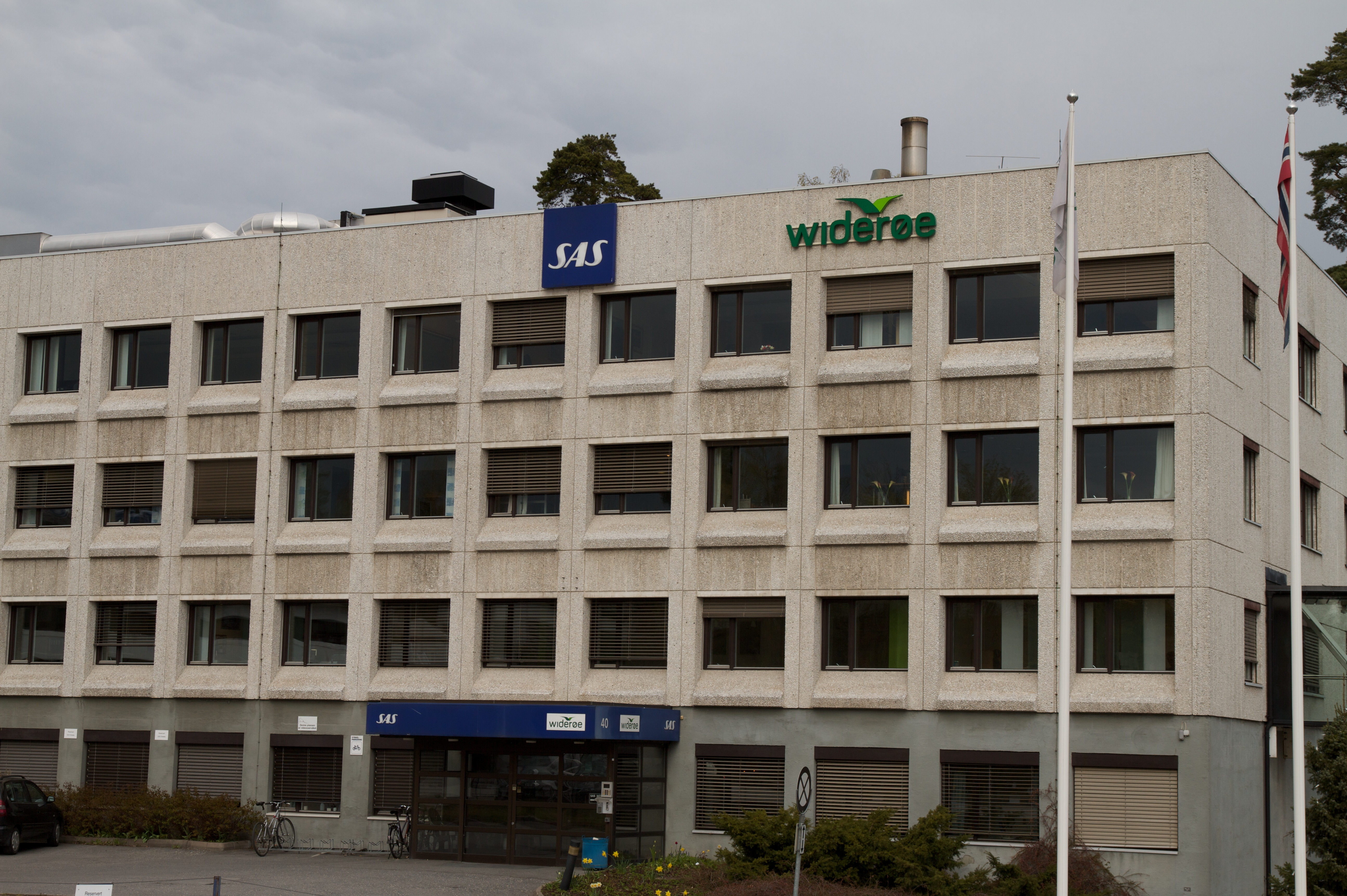 SAS Norway HQ. Fornebuveien, Bærum, Norway.